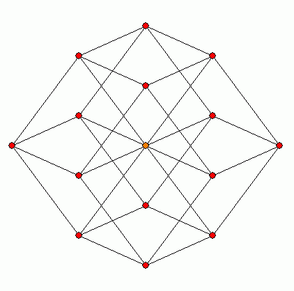 4-hypercube (tesseract) graph This hypercube graph is an orthogonal projection. This oriented projection shows columns of vertices positioned a vertex-edge-vertex distance from one vertex on the left to one vertex on the right, and edges attaching adjacent columns of vertices. The number of vertices in each column represents rows in Pascal's triangle, being 1:4:6:4:1 in the case of a 4-cube (tesseract). Note: Starting with the tesseract the orthogonal projection shows vertices overlapping (Here one orange vertex in the center is actually two in the same direction). The counts of vertices at each 2d location are represented by colors, red, orange, yellow, green, etc.